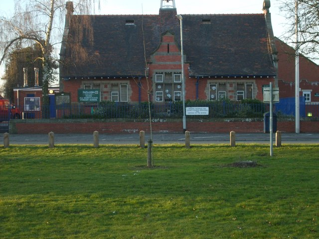 All Saints CE School The Primary School in School Road Trysull.